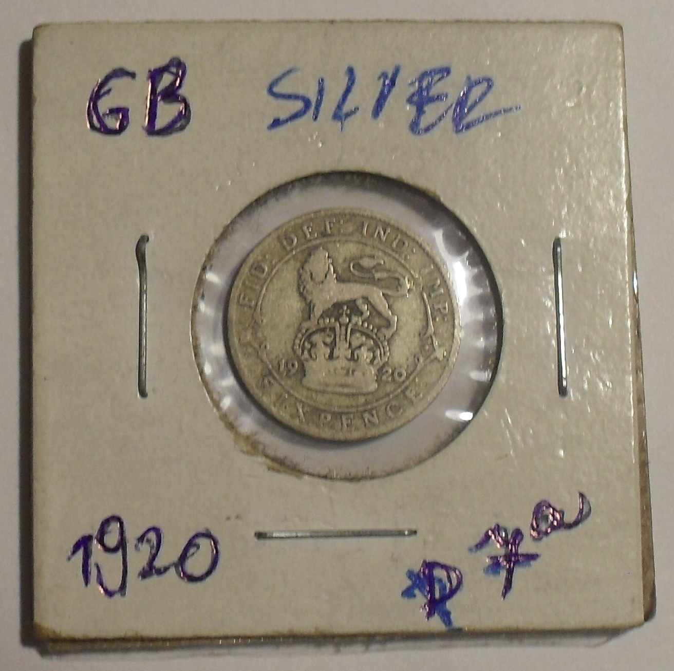 coin holder